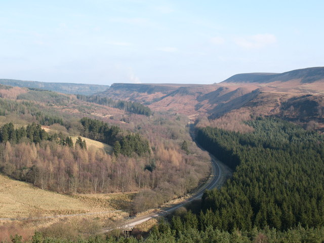 Newtondale The spectacular steep sided dale seen from near Skelton Tower.